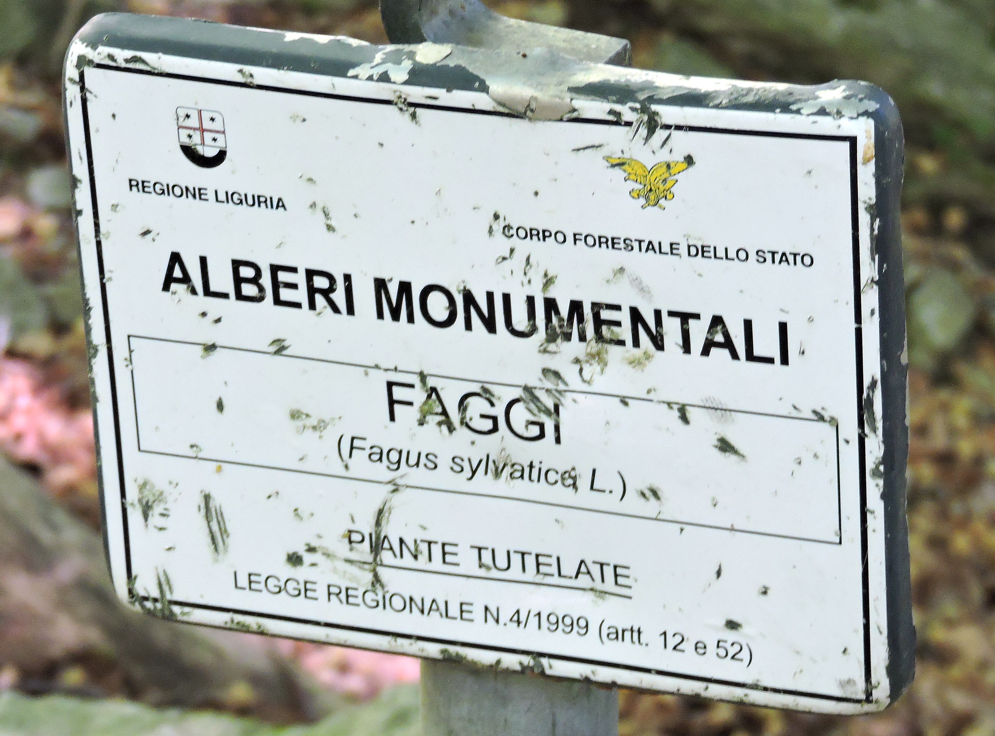 Panel showing the protection of a group of monumental beech trees in the Ligurian Apennine (Italy)